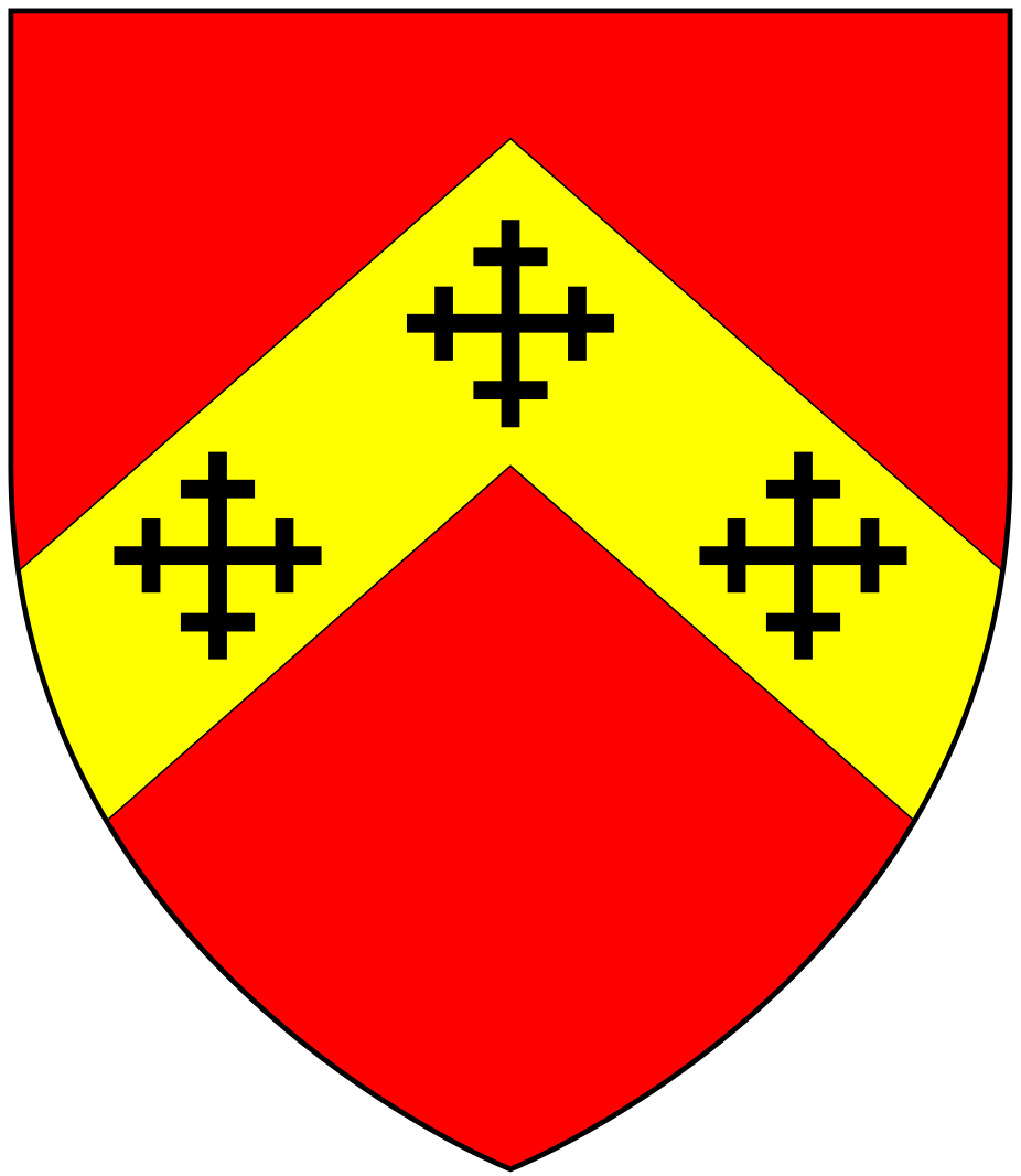 Arms of Hadley of Withycombe, Somerset: Gules, on a chevron or three cross-crosslets sable (See Maxwell Lyte, Sir Henry (1848-1940), Dunster and its Lords, published in Archaeological Journal, Vol. 38, 1881, p.82 and in the later book version: Maxwell-Lyte, Dunster and its Lords, Appendix F, p.67)